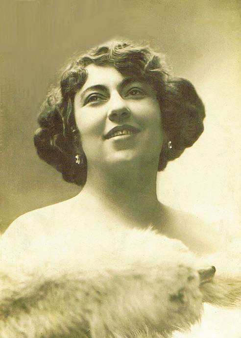 Eugenia Burzio 1915